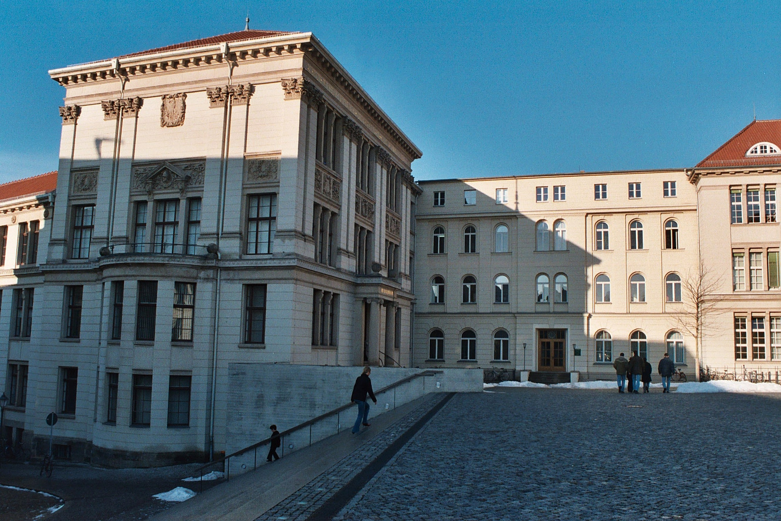 Halle (Saale), the Melanchthonianum of the University